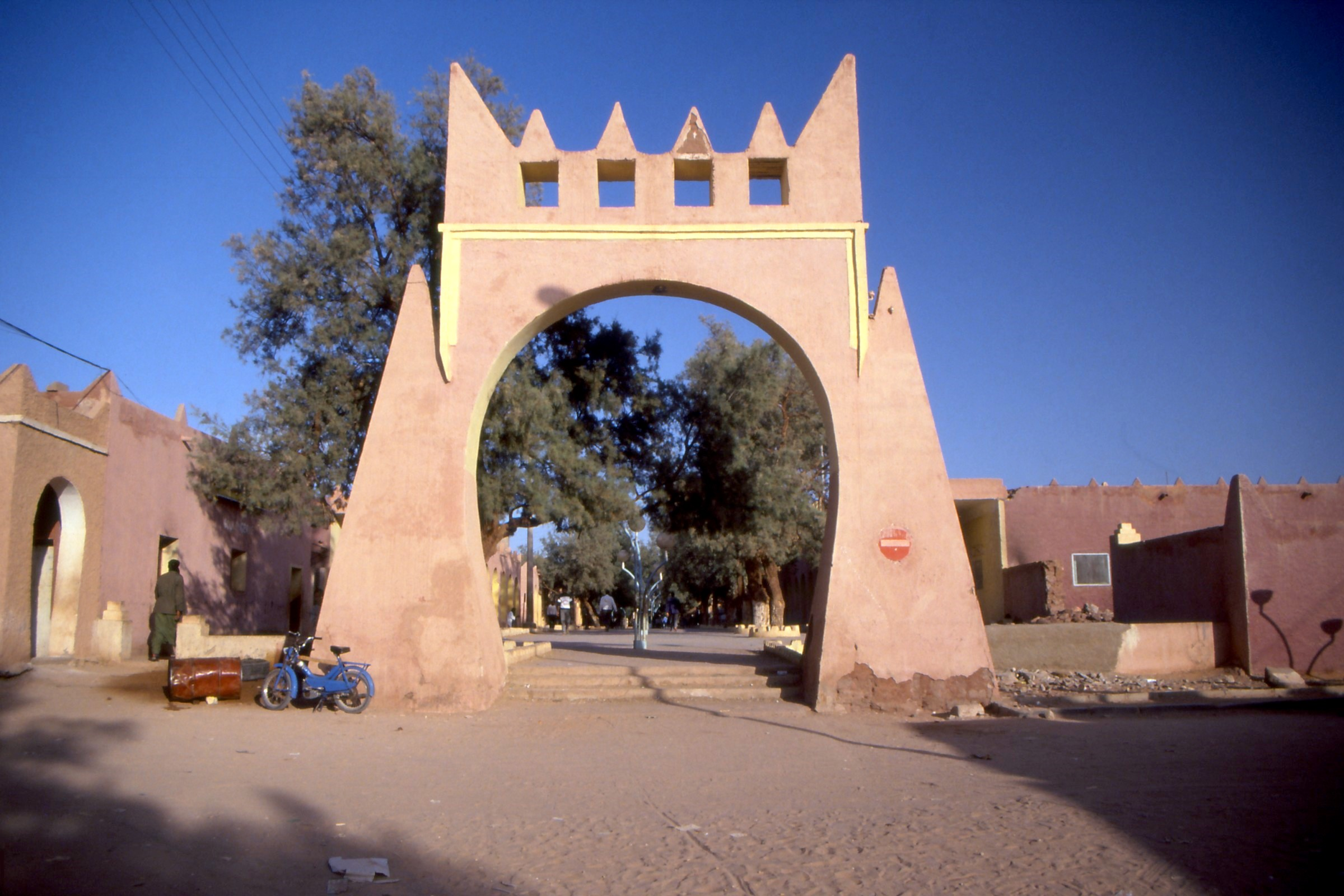 City gate of In Salah, Algeria (1991)